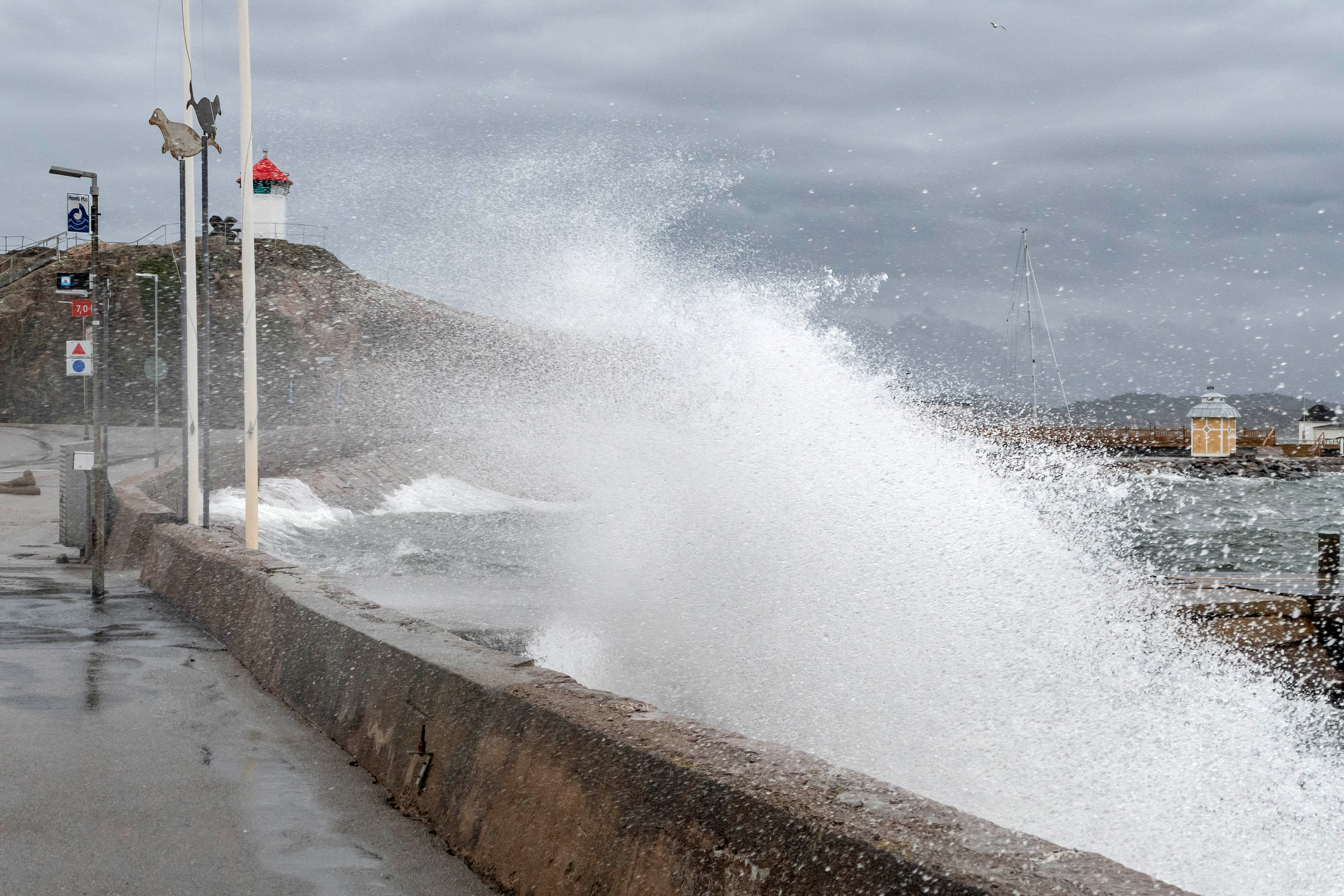 Wave in Kyrkevik, Lysekil, Sweden, during Storm Dennis. At the time the wind speed was about 25 m/s (56 mph).